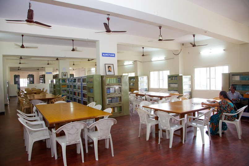 svitlibrary